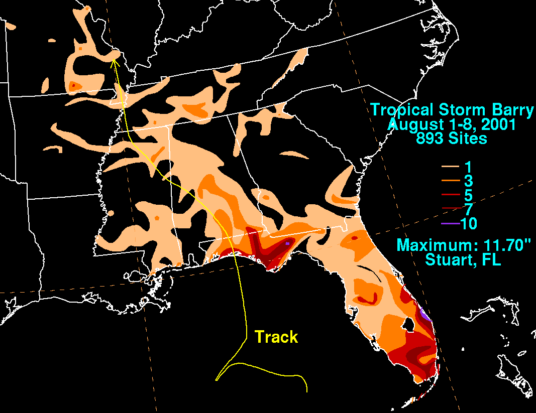 Rainfall produced by Tropical Storm Barry during August 2001.